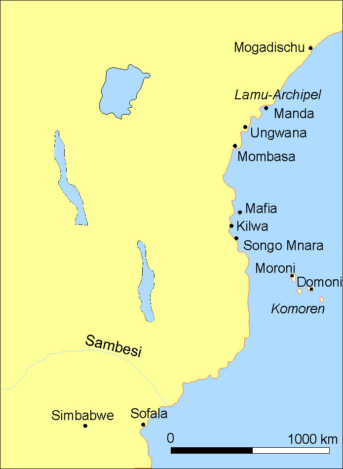 Coast of East Africa, 800-1500